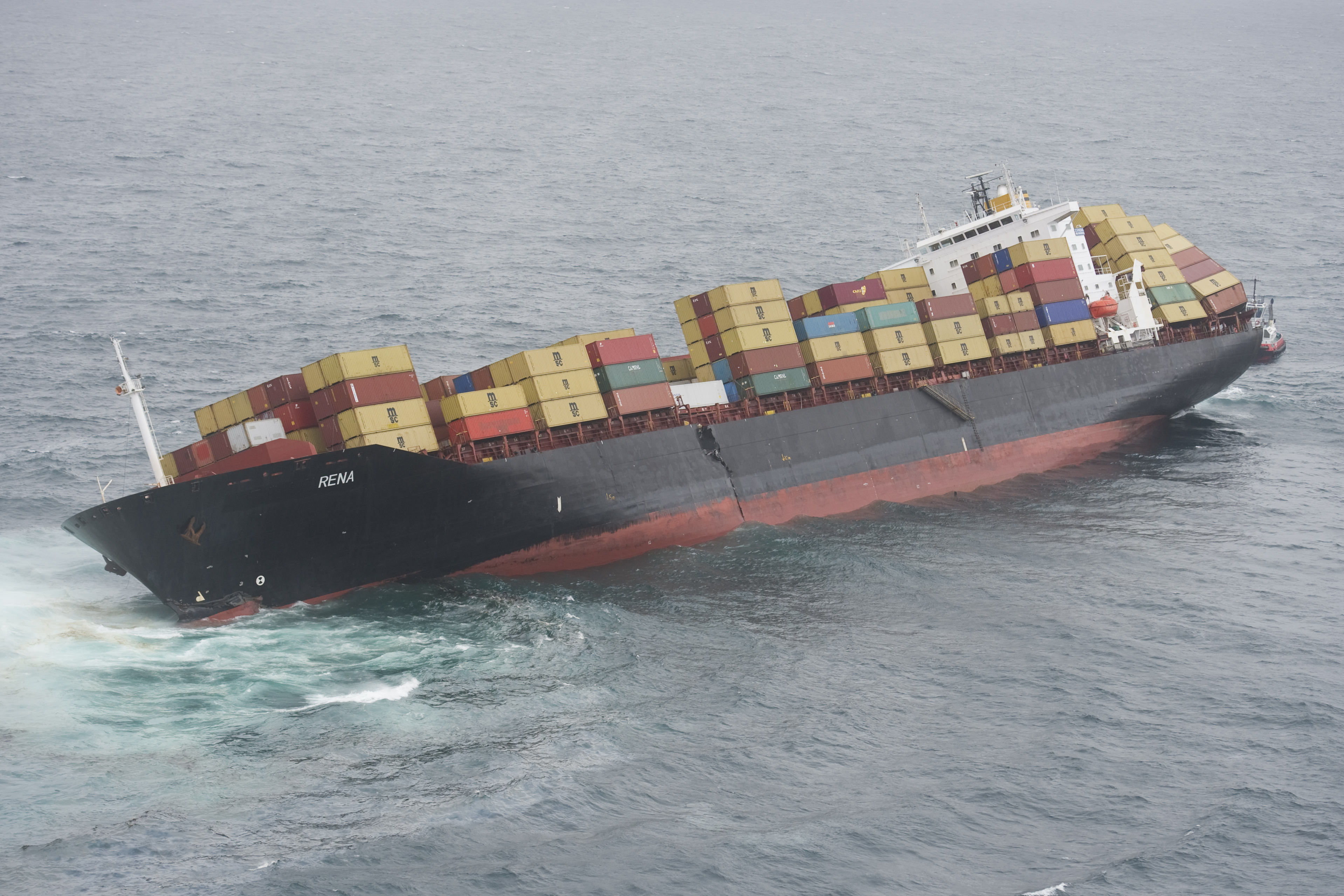 Aerial view of grounded ship Rena